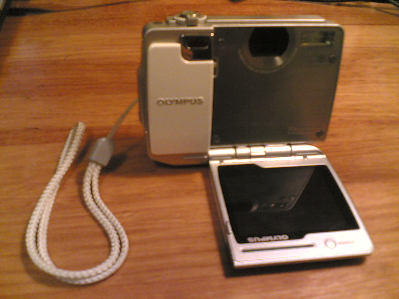 Low quality picture of the Olympus IR-500 digital camera.